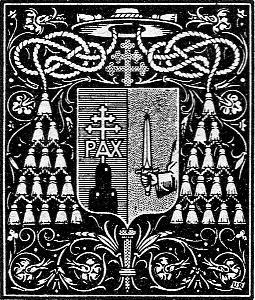 cardinal schuster coat of arms